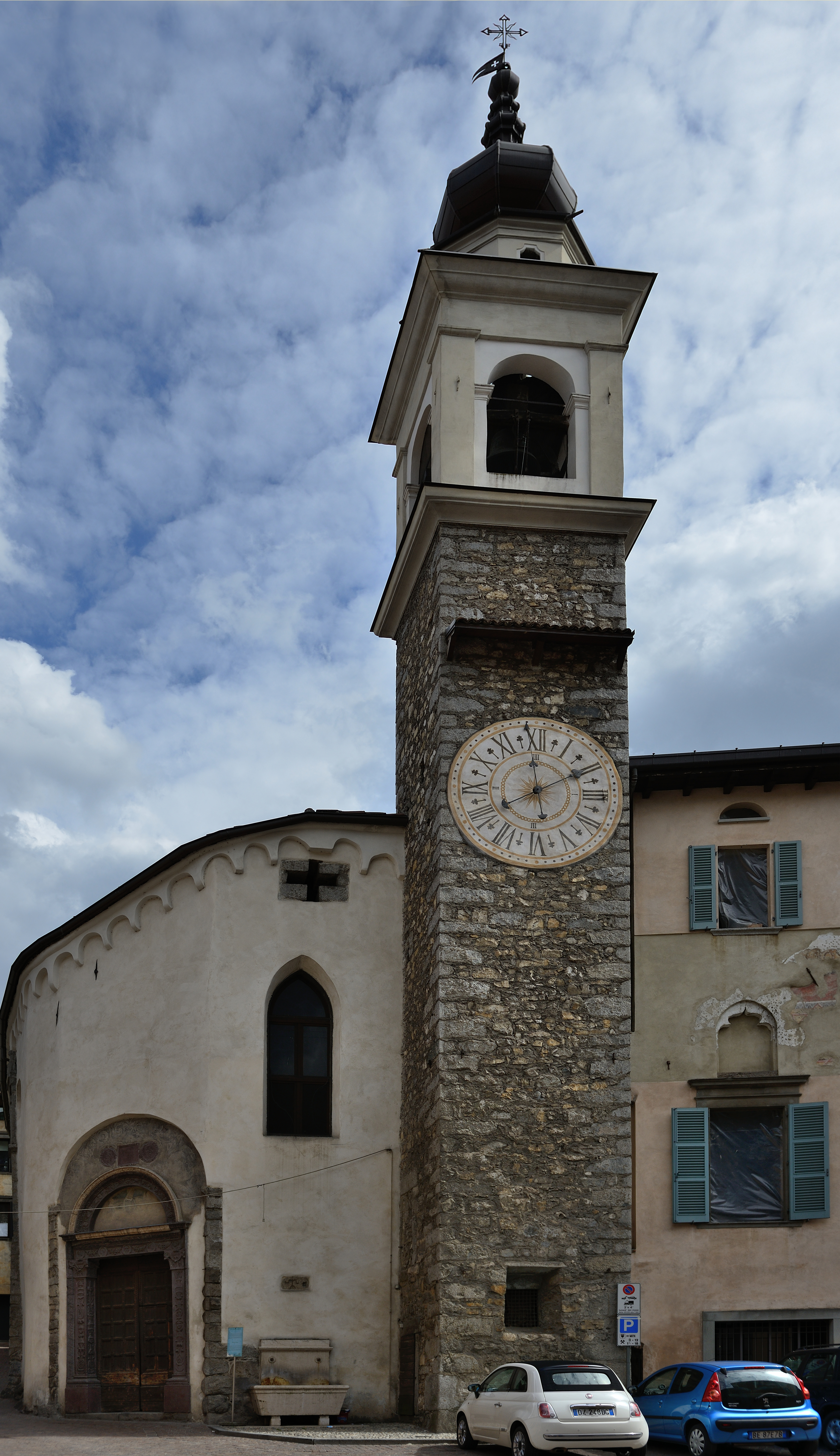 Church of Saint Antony the Great. Breno, Val Camonica